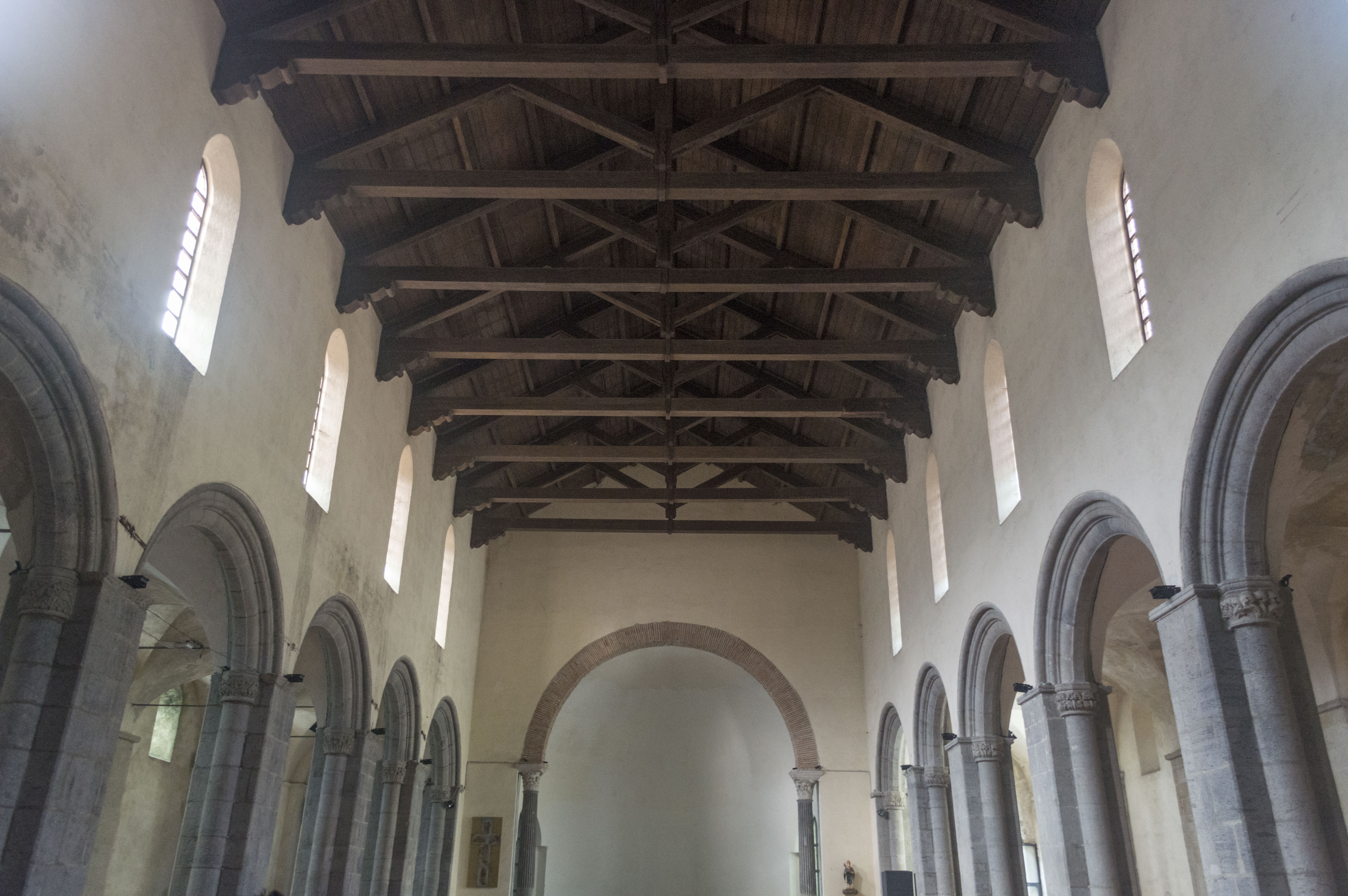 San Gennaro extra Moenia, Naples